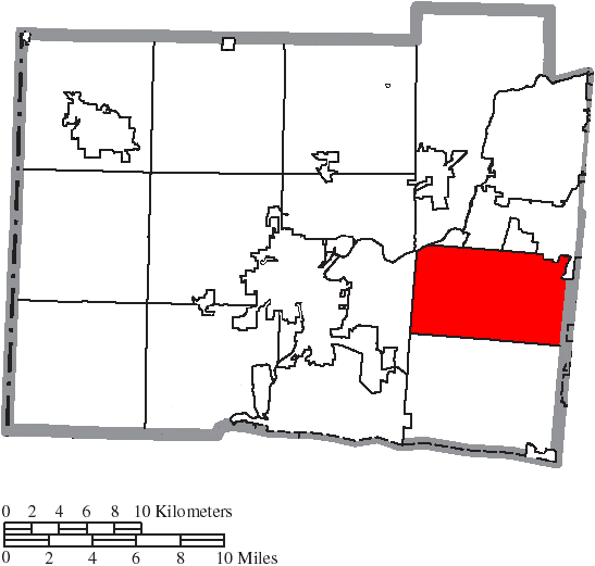 Map of the municipal and township boundaries of Butler County, Ohio, United States, as of the 2000 census, with the location of Liberty Township highlighted. Township borders are shown only in unincorporated areas in order to differentiate incorporated and unincorporated areas more clearly.